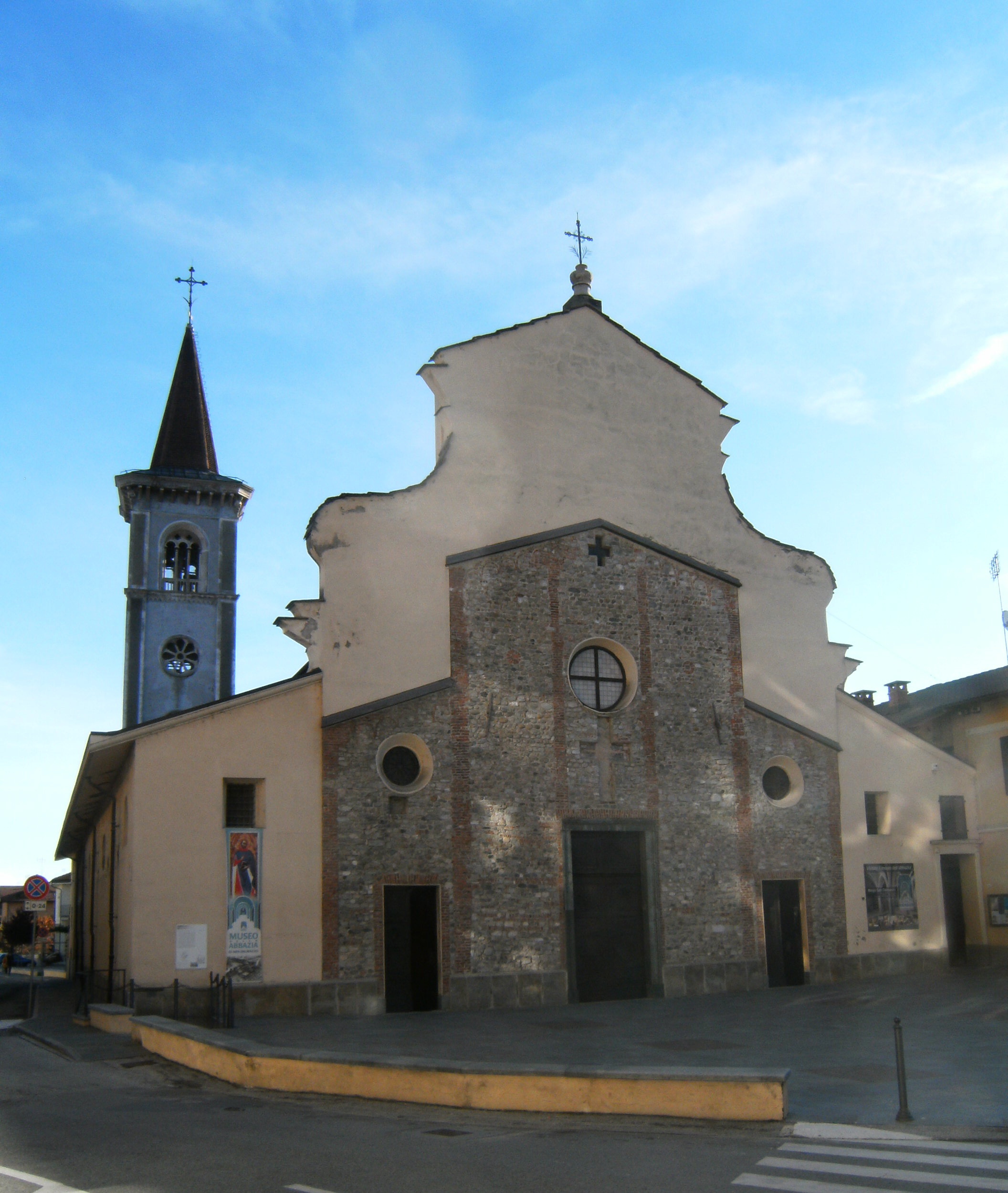 Borgo San Dalmazzo - Chiesa di San Dalmazzo